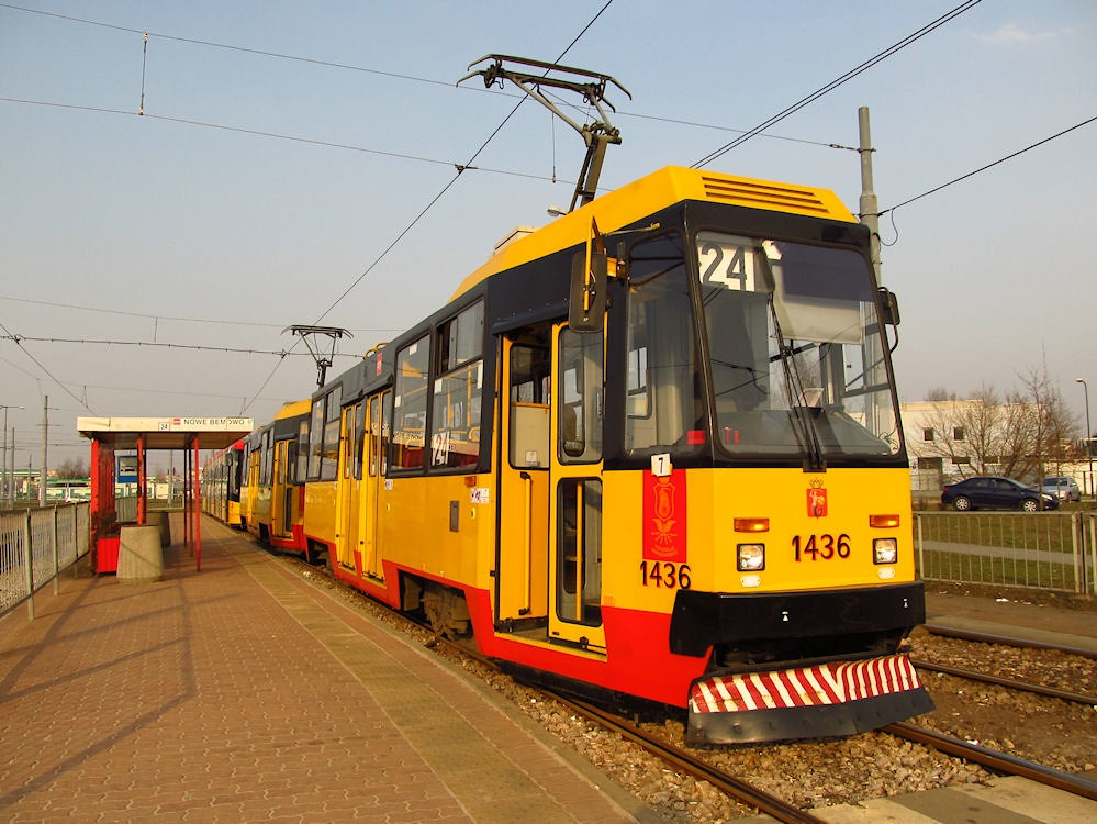 Konstal 105Nf 1436, tram line 24, Warsaw, 2015